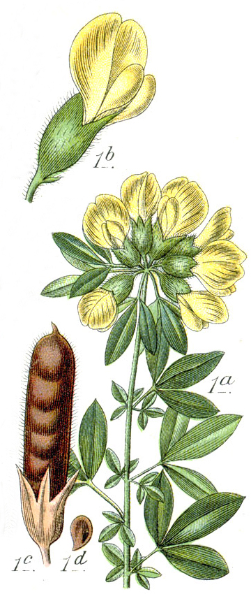 1. Cytisus hirsutus L. a. flowering shoot b. flower c. seed pod d. seed